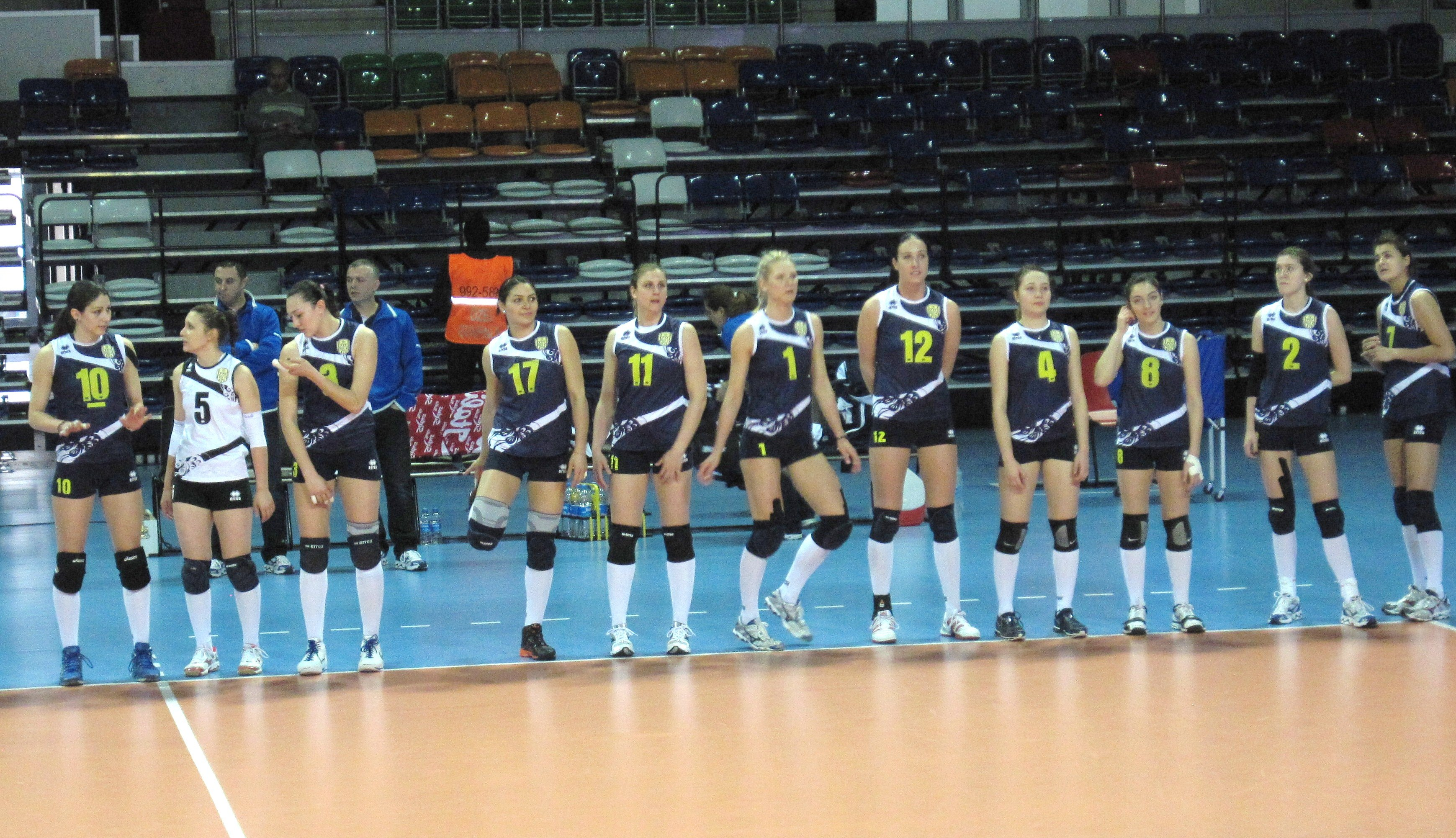 Turkish volleyball team Ankaragücü